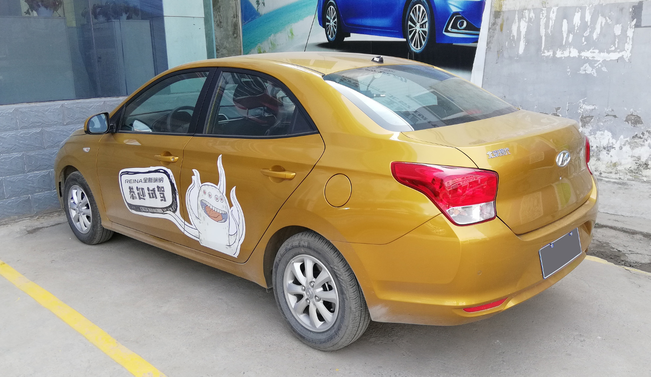 Hyundai Reina photographed in Zhengzhou, Henan province, China.